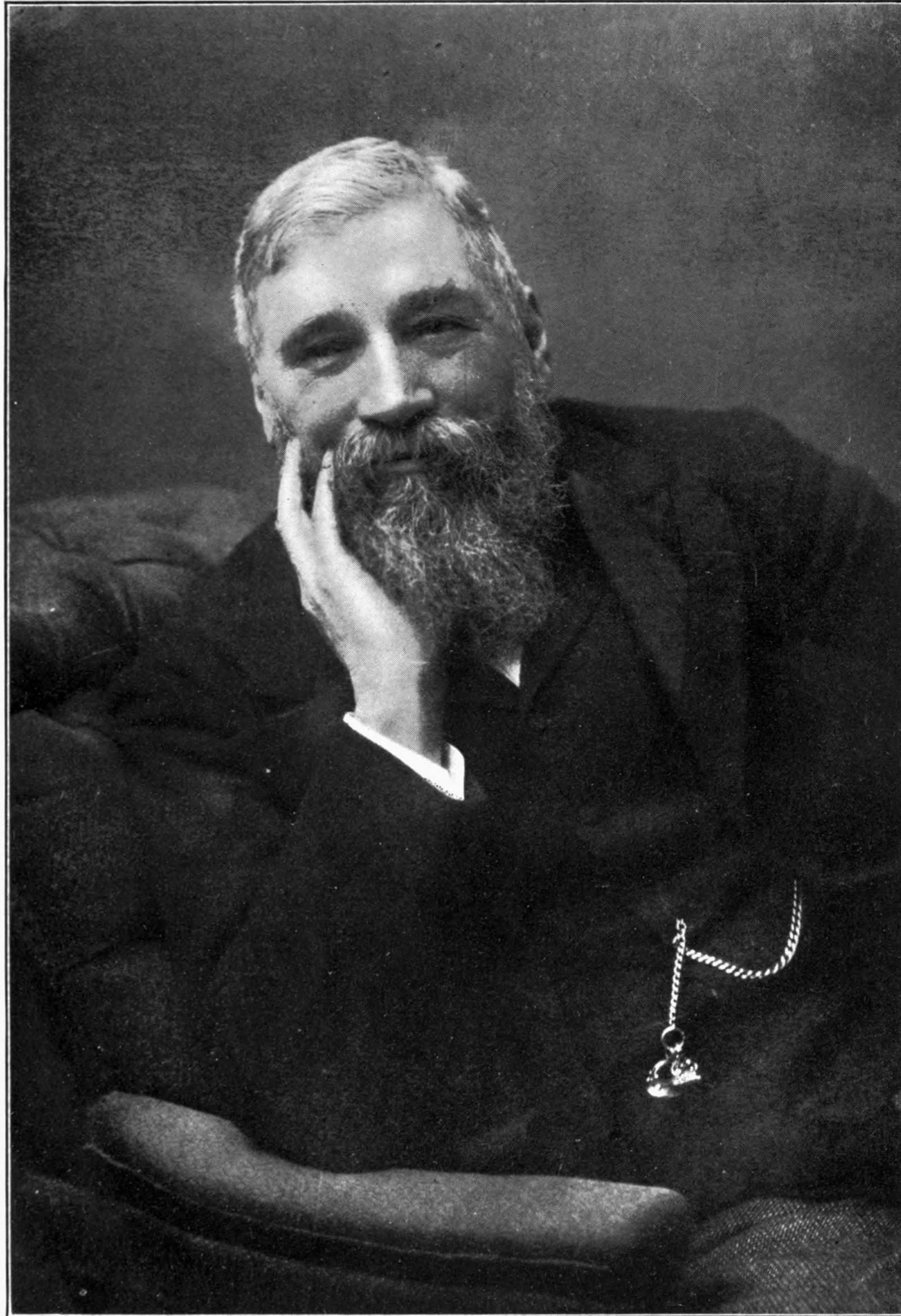 Frontispiece from Notes by the Way 1909 The photograph shows Joseph Knight at age 67